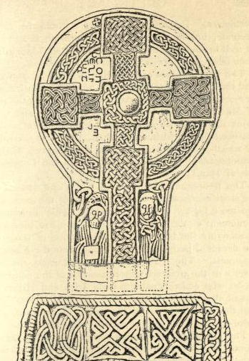 Great Wheel-Cross Conbelin at Margam Abby, Glamorganshire